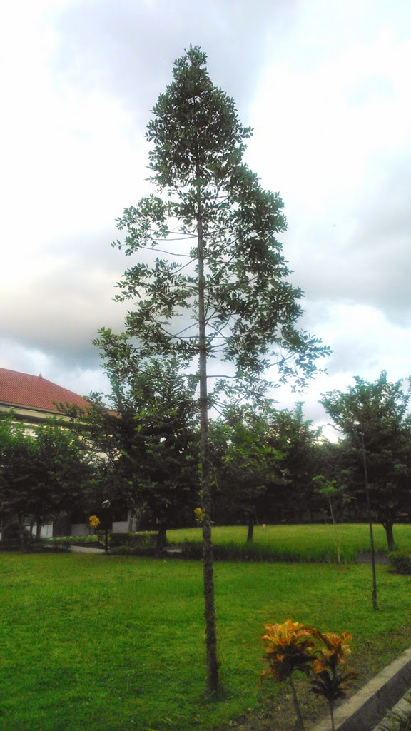 Agathis dammara ("pohon damar"), as garden element, showing its natural form of its crown. Yogyakarta.